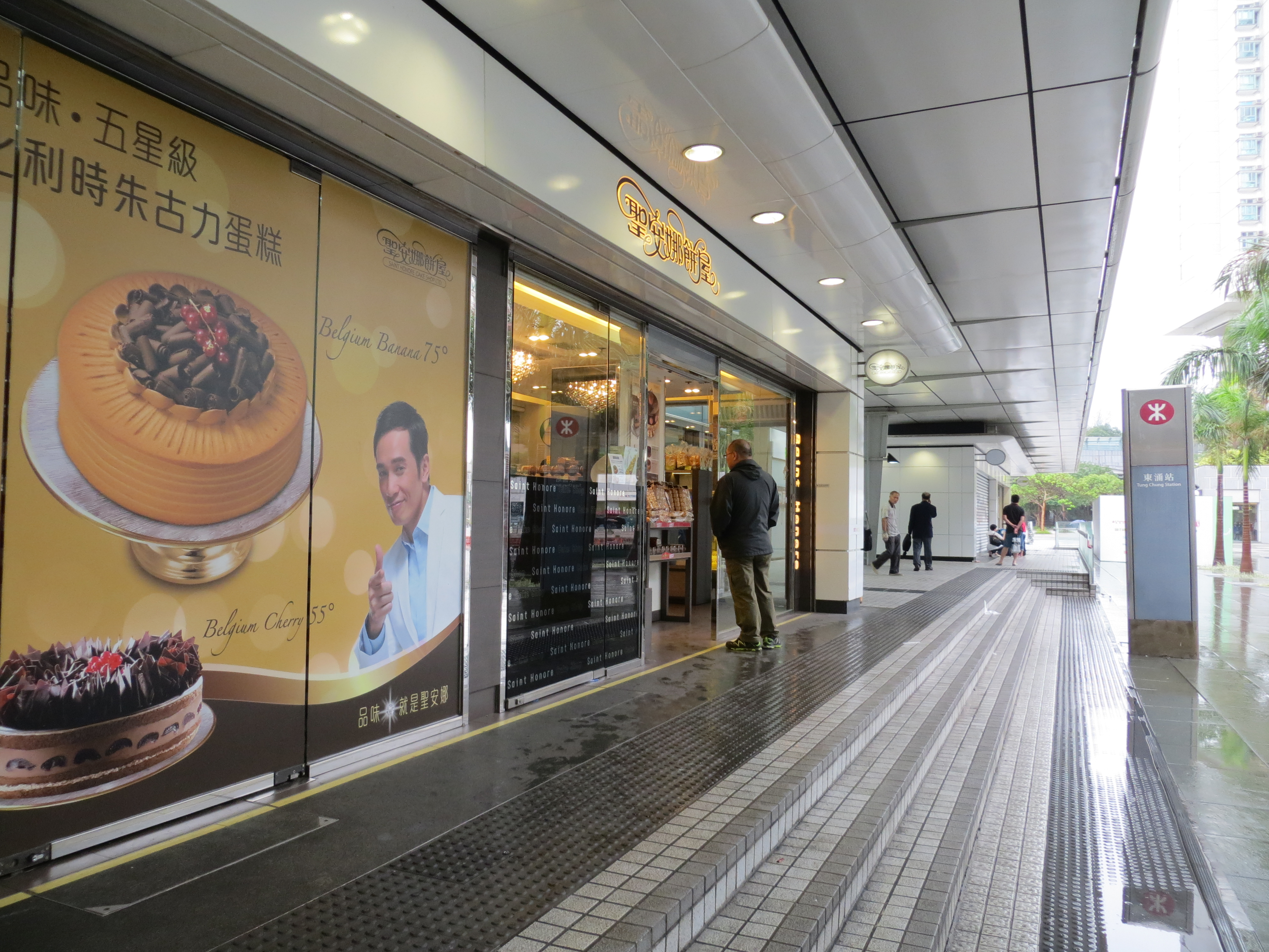 A Saint Honore Cake Shop at the Tung Chung Station, Tung Chung, Lantau Island, New Territories, Hong Kong.